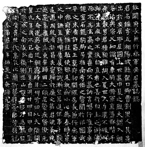 Rubbing of the epitaph of the Sogdian An Pei, Sui dynasty.